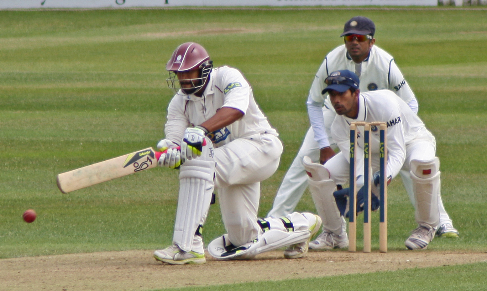 Arul Suppiah sweeps the ball during his career-best batting innings of 156, made against India at the County Ground, Taunton.